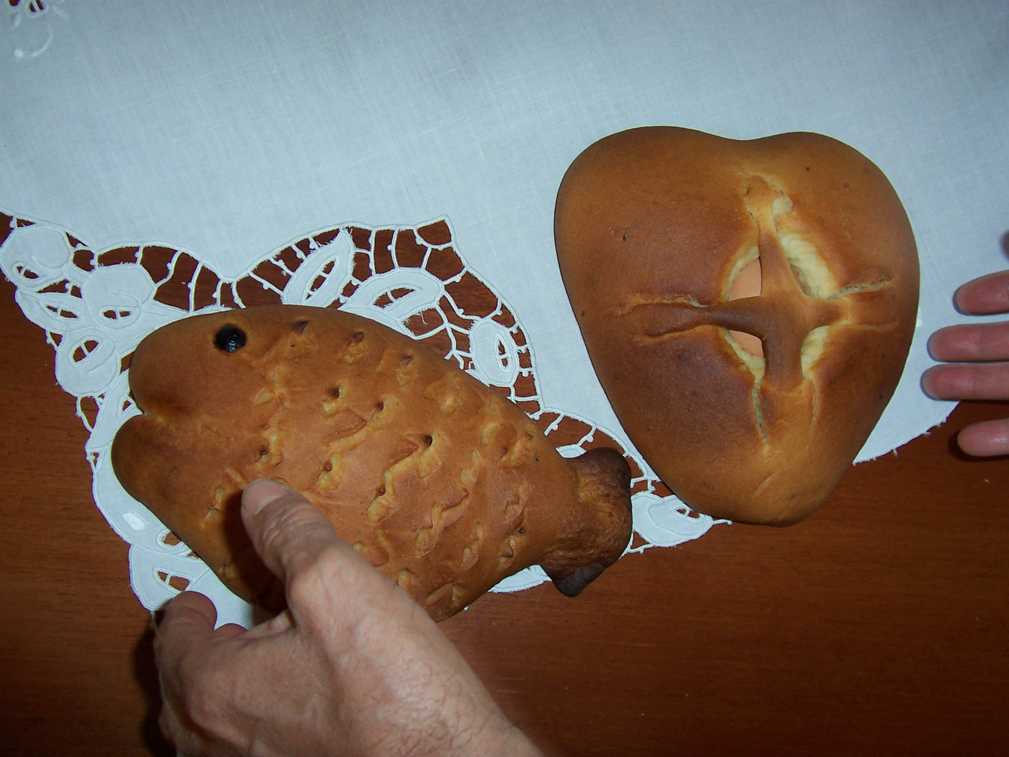 Cuzzupa, traditional pastry from Calabria, Italy